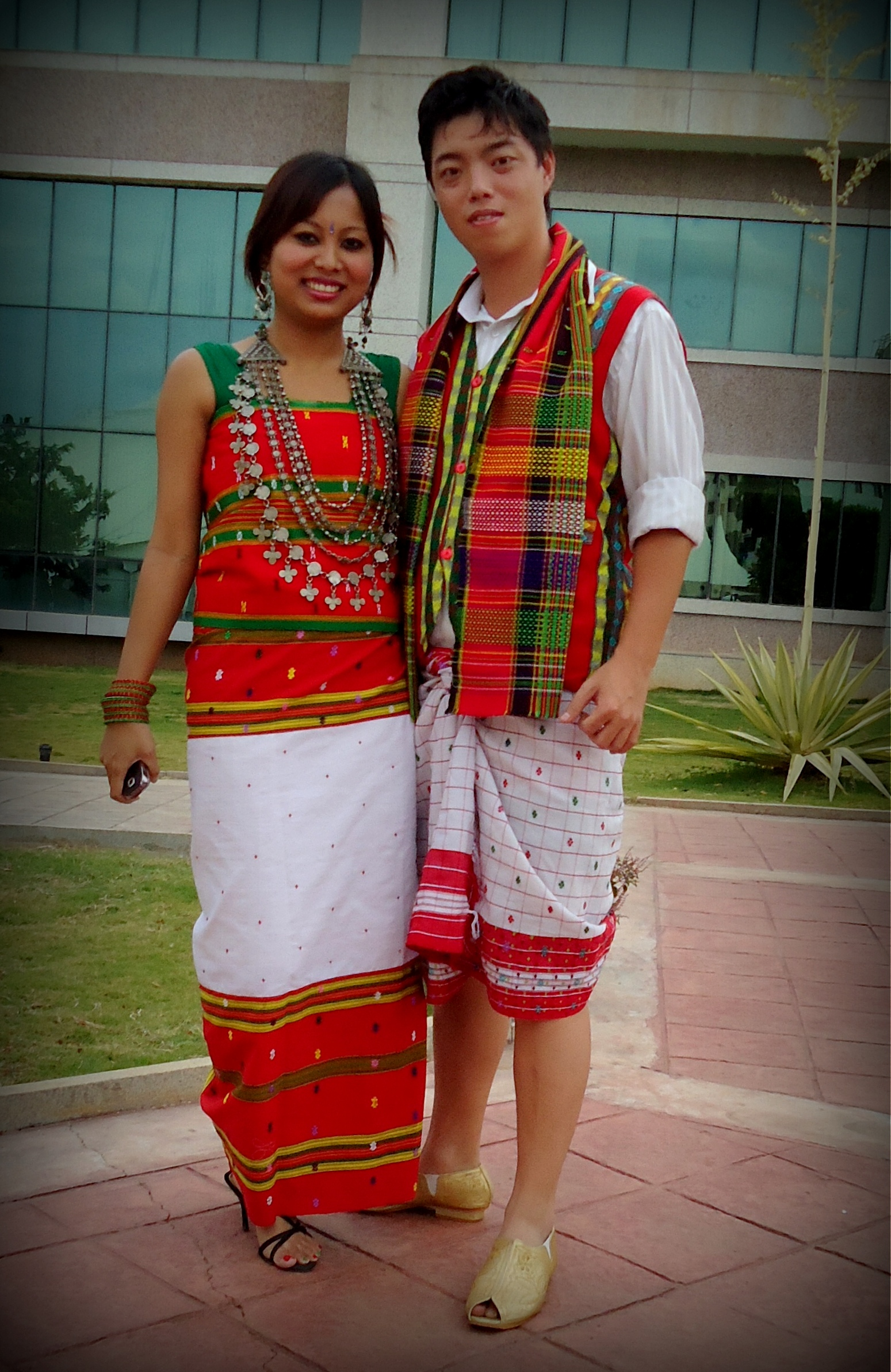 This photo was clicked on ethnic day in office.